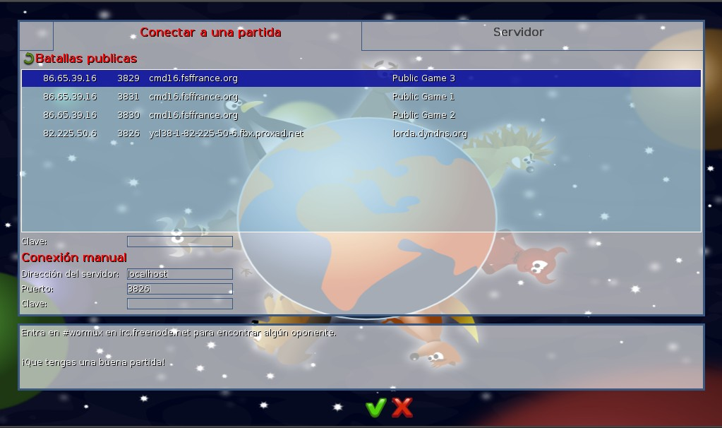 Own Screenshot